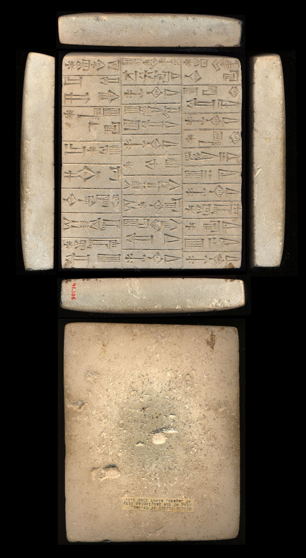 The cuneiform script records the order of King Ur-Baba of Lagash to rebuild the temple of its main god, Ningirsu. Ur-Baba was the predecessor of the famous King Gudea. The tablet also mentions that Ur-Baba built temples in other important cities to demonstrate his political influence and power.